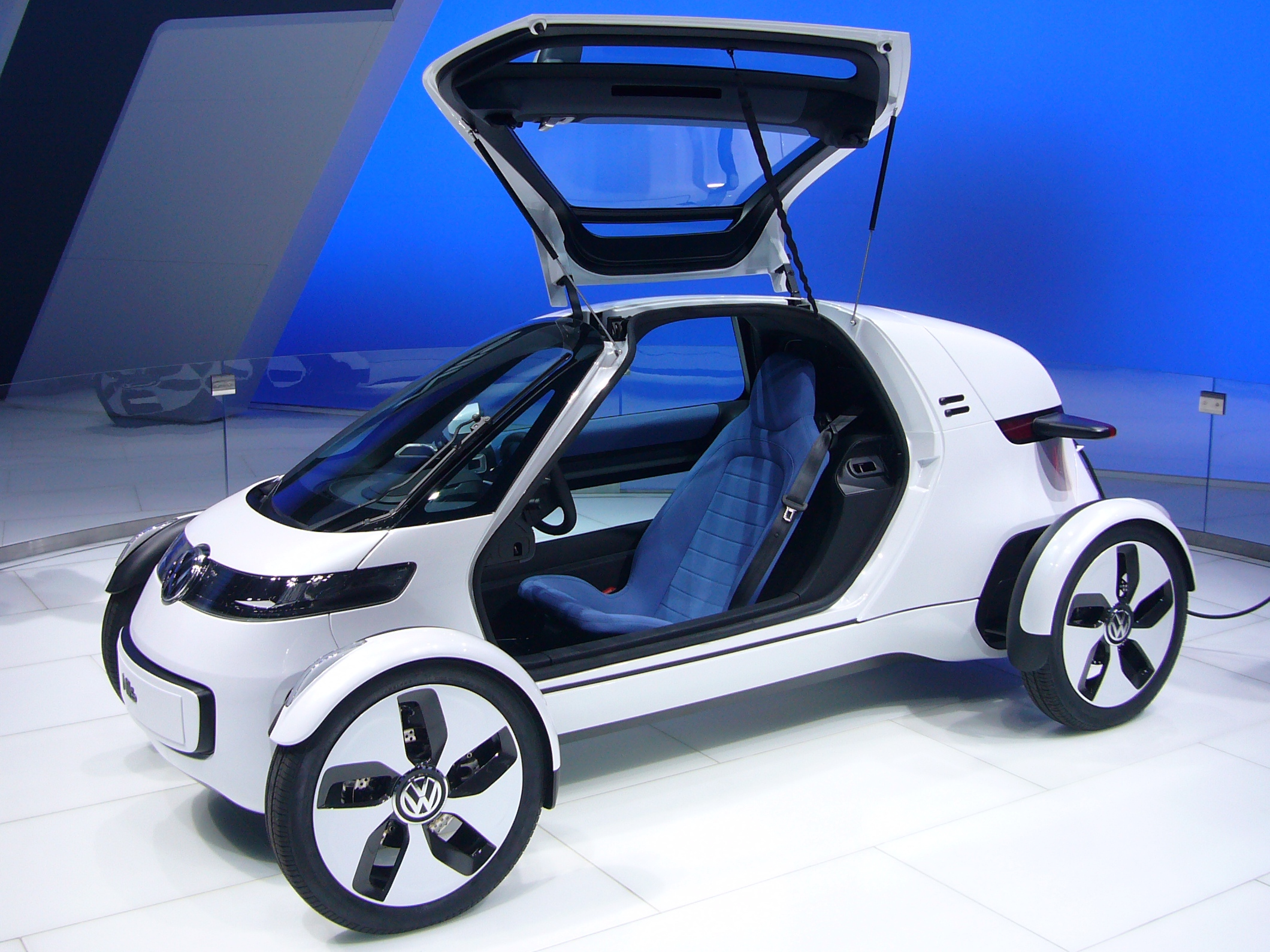 Volkswagen Nils Concept at IAA Frankfurt 2011.